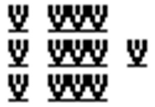 Glyph of Rovas 500 (big), created on 10.05.1997. Screenshot of rovas text processor, developed by Béla Nagy, secondary school teacher, 1996. This text processor has been used at computer lessons.